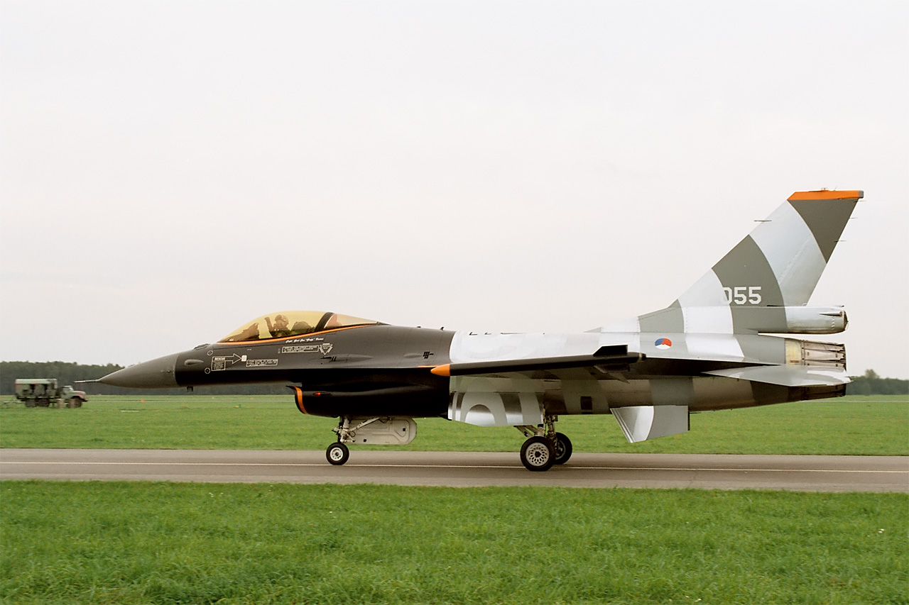 F-16 MLU of Royal Netherlands Air Force's Solo Display Team (registration number: J-055) taxiing at Radom Air Show 2005. August 28th, 2005.